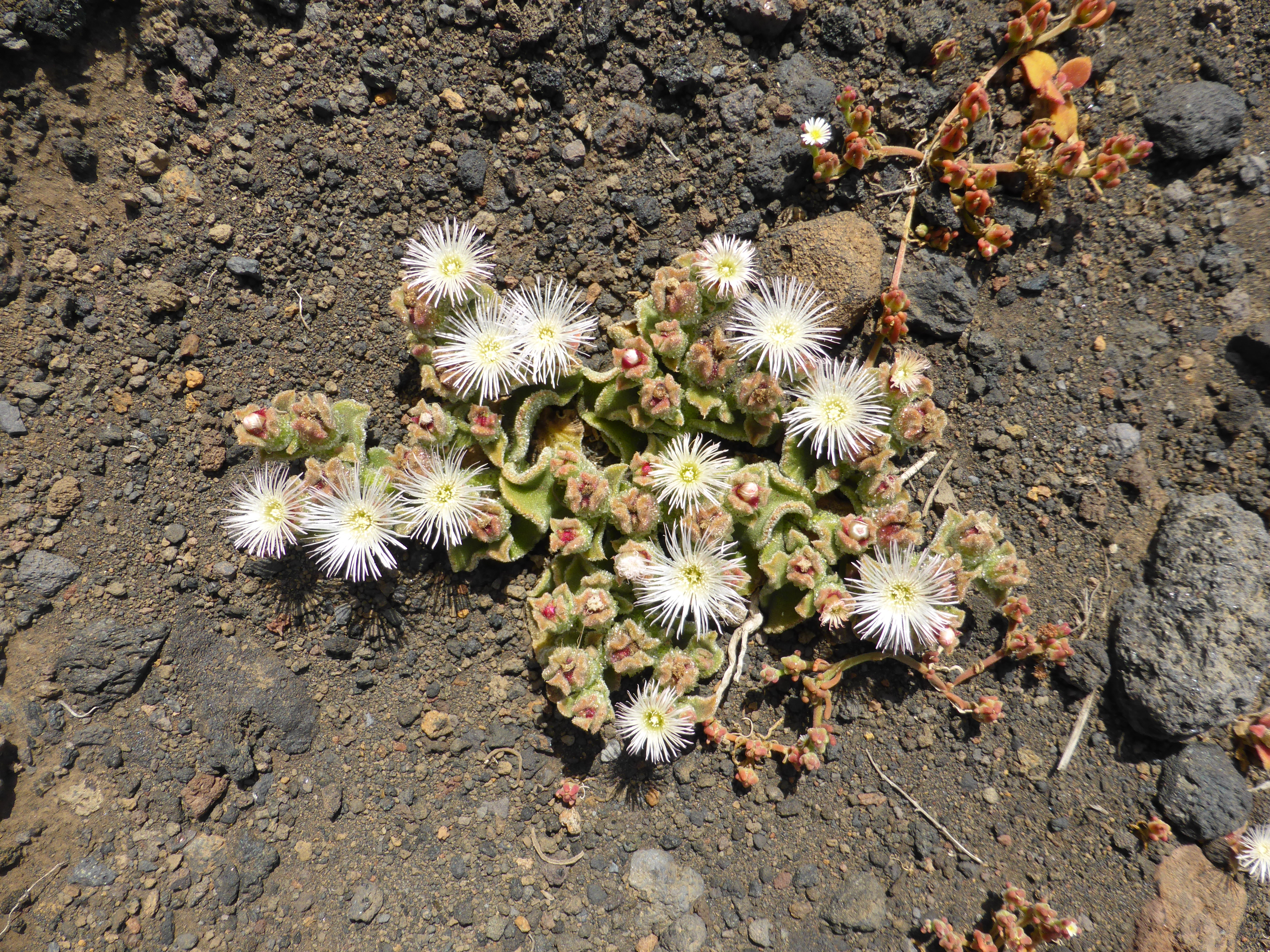 Crystalline iceplant. Common iceplant.